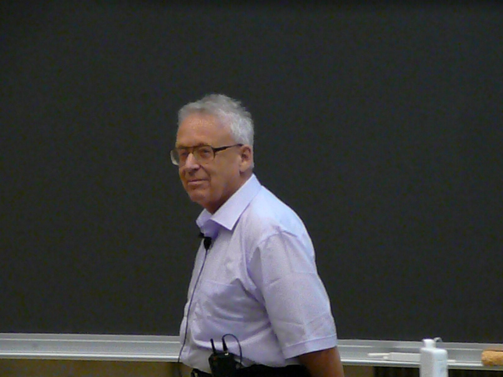 Igor Mel'čuk